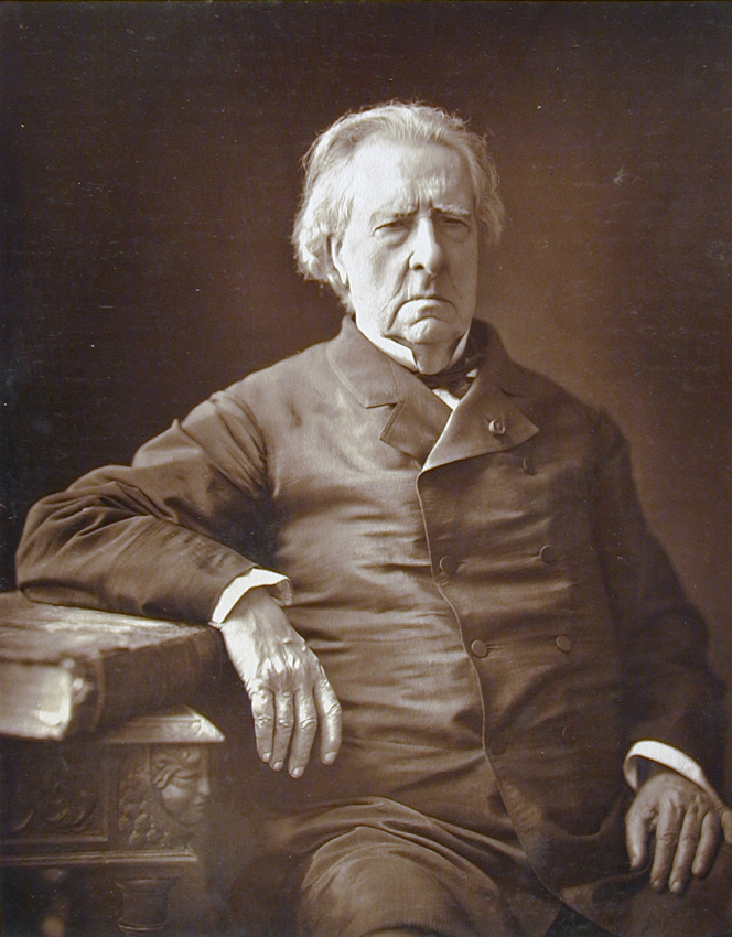 France, 1876-1884 Book: Galerie Contemporaine Volume, number, page: Volume 3 Photographs Woodburytype The Audrey and Sydney Irmas Collection (AC1992.229.40) Photography